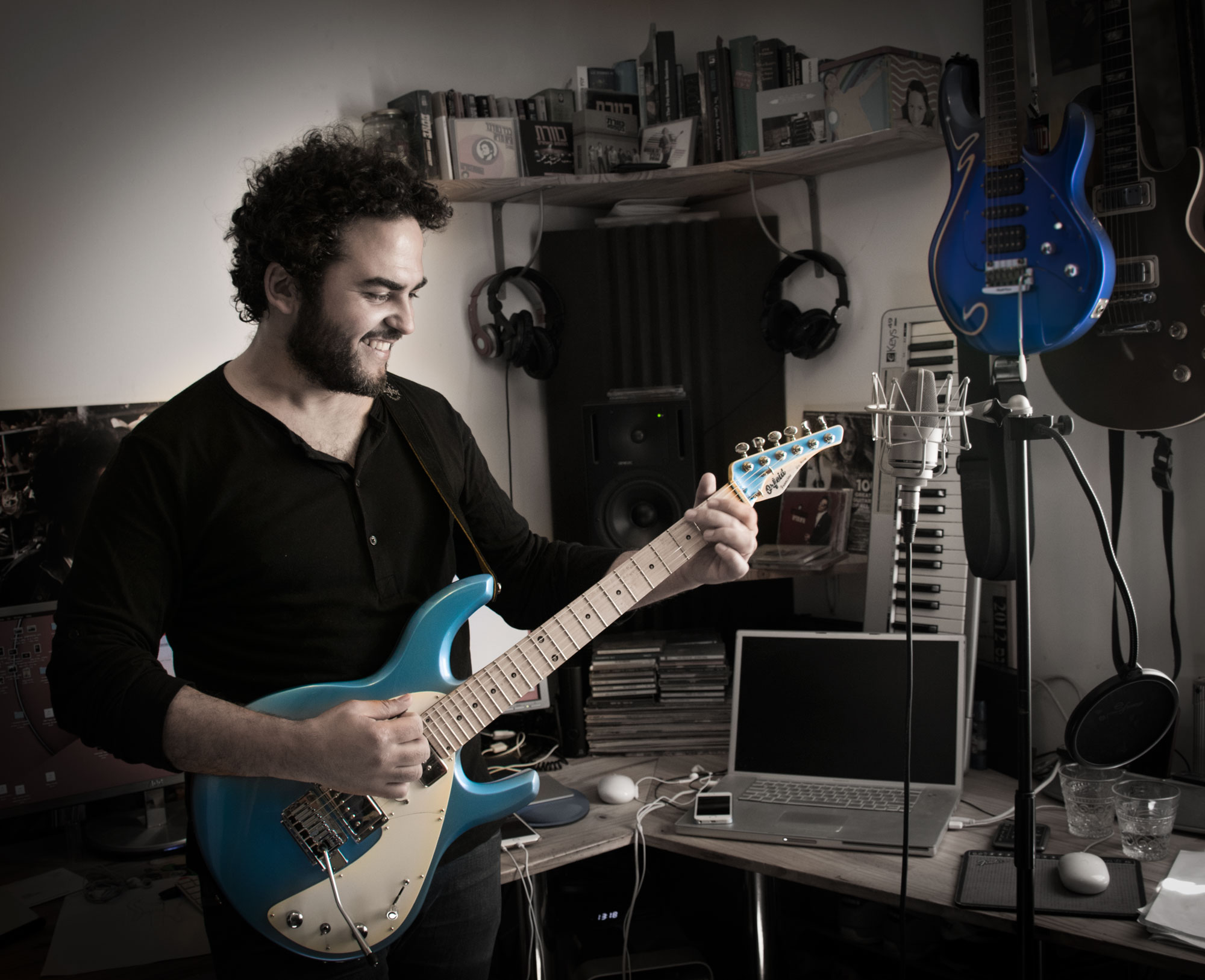 Guy Mazig